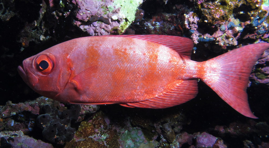 Crescent-tail bigeye, Priacanthus hamrur at Little Brother, Red Sea, Egypt #SCUBA